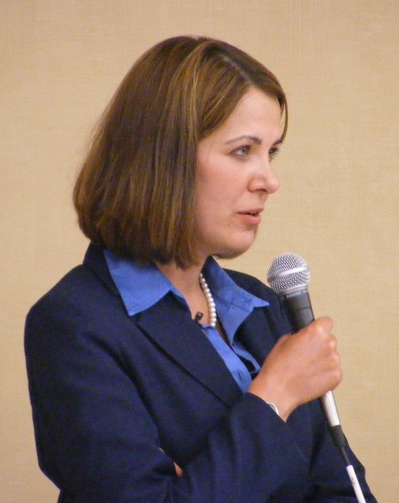 A cropped to portrait size version of File:Wildrose Alliance Leadership Forum - Danielle Smith.jpg.